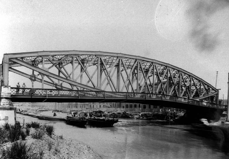 Chekiang Road Bridge (built in 1908) in Shanghai in 1910 approximately.